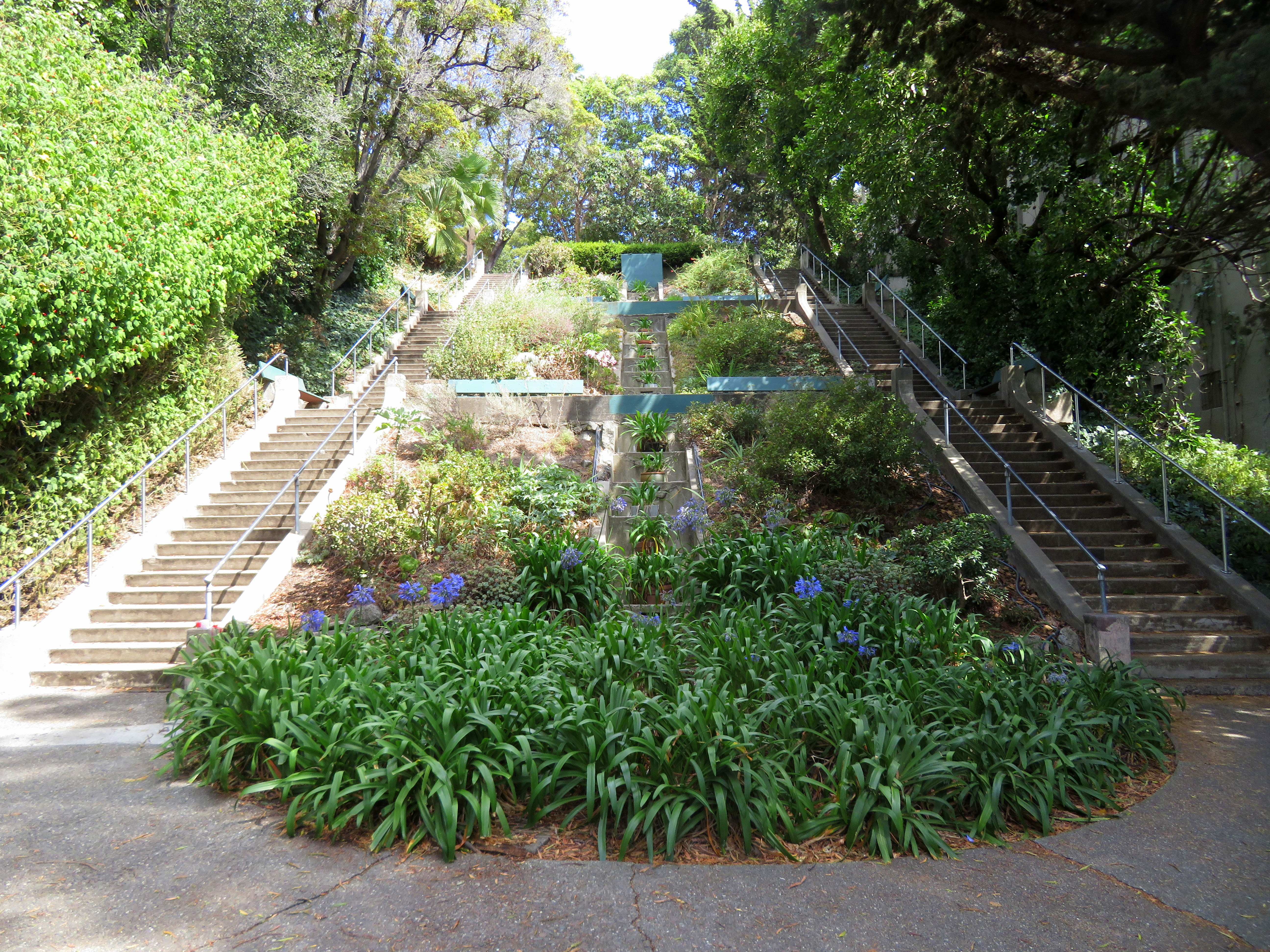 The upper portion of Cleveland Cascade in August 2020